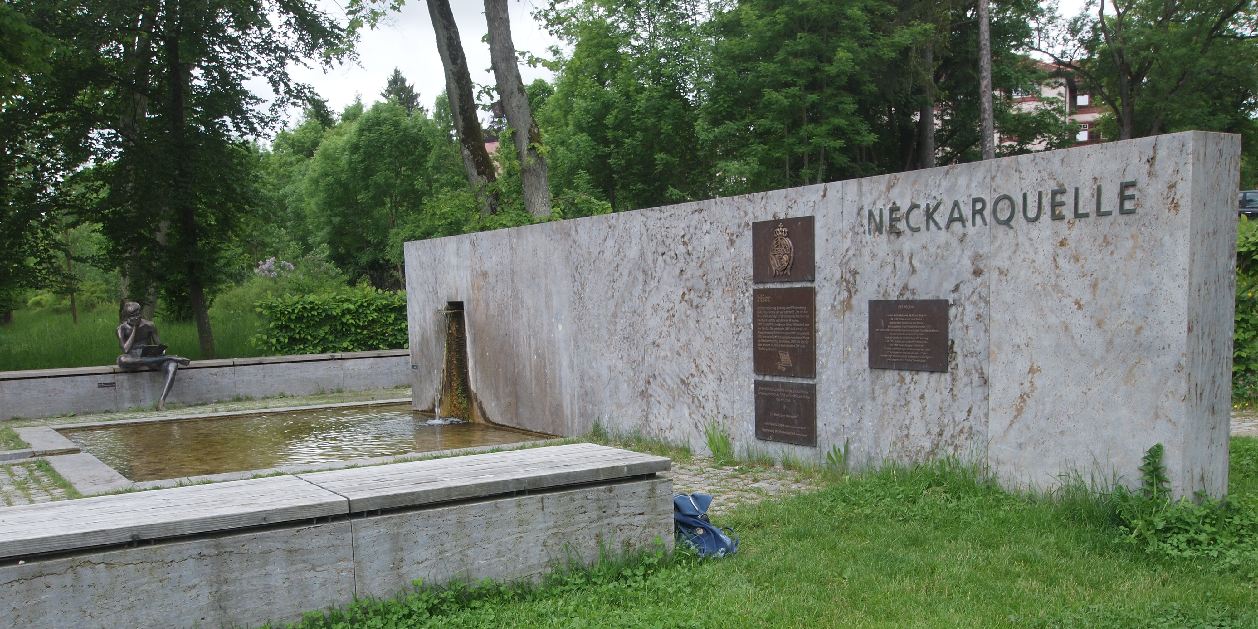 Reputed source of Neckar river in the Schwenningen town park. In fact, it's a well, fed by an electric grundwater pump. Once there used to be a natural source at this location, but the aquifer was destroyed by the Rottweil–Villingen railway.